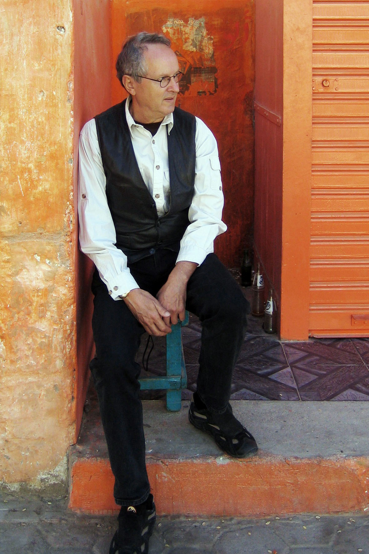 Xago at the Nile, 2007